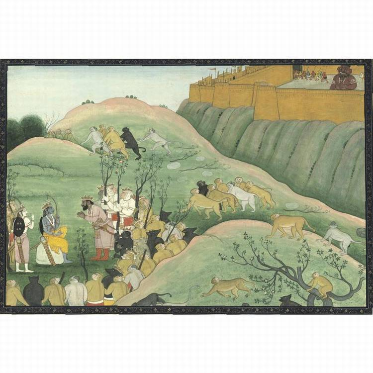 India, Guler circa 1790 The scene depicting the dark-skinned Rama with his brother Lakshmana at lower left, receiving a message delivered by Vibhishana, younger brother of the demon king Ravana, who later joined forces with Rama. The group is encircled and protected by the monkeys and bears of Rama's army, some of whom are carrying tree branches. Others have their heads turned towards the fortified golden citadel of Lanka, situated on a rocky cliff, from where the demon Kumbhakarna gazes out. Opaque watercolor heightened with gold on paper Notes: The portrayal of the seemingly invincible fortress of Lanka placed atop sheer rocky escarpments, may be compared to another illustration from the same series; see Craven, 1990, fig. 8, pp. 98-99. For more illustrations from the same series, also see Pal, 2001, nos. 60 & 61; Sotheby's New York, March 22, 2002, lots 59 & 60; and Sotheby's New York, November 14, 2002, lot 84. Provenance: PROPERTY FROM A PRIVATE NEW YORK COLLECTION Sotheby's New York, September 16, 1999, lot 180 Dimensions: image 8 by 12 in. (20.3 by 30.5 cm.) folio 8 1/2 by 12 1/2 in. (21.6 by 31.8 cm.)